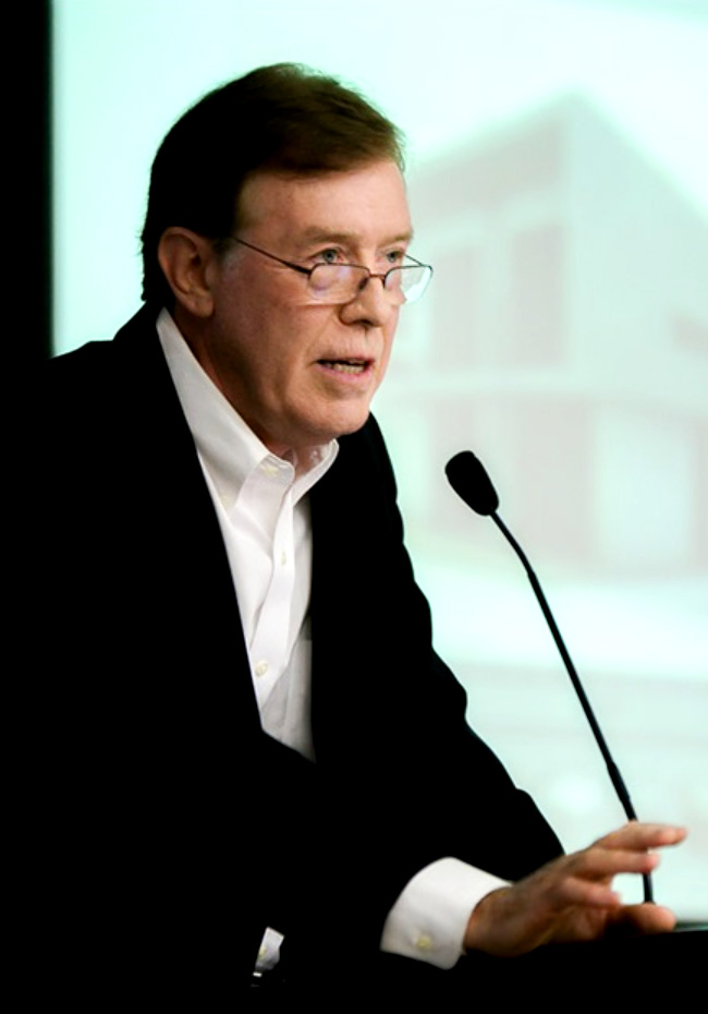 Michael Mitchell giving a speech in China